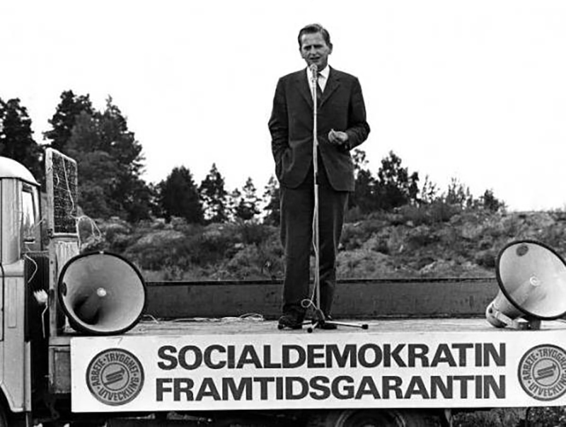 Olof Palme giving a speech on a truck, where is unclear. The Almedalen park in Visby has been suggested, but that is highly unlikely, as the background does not match (there are no pine trees in Almedalen, and the current park is from the 1870s).